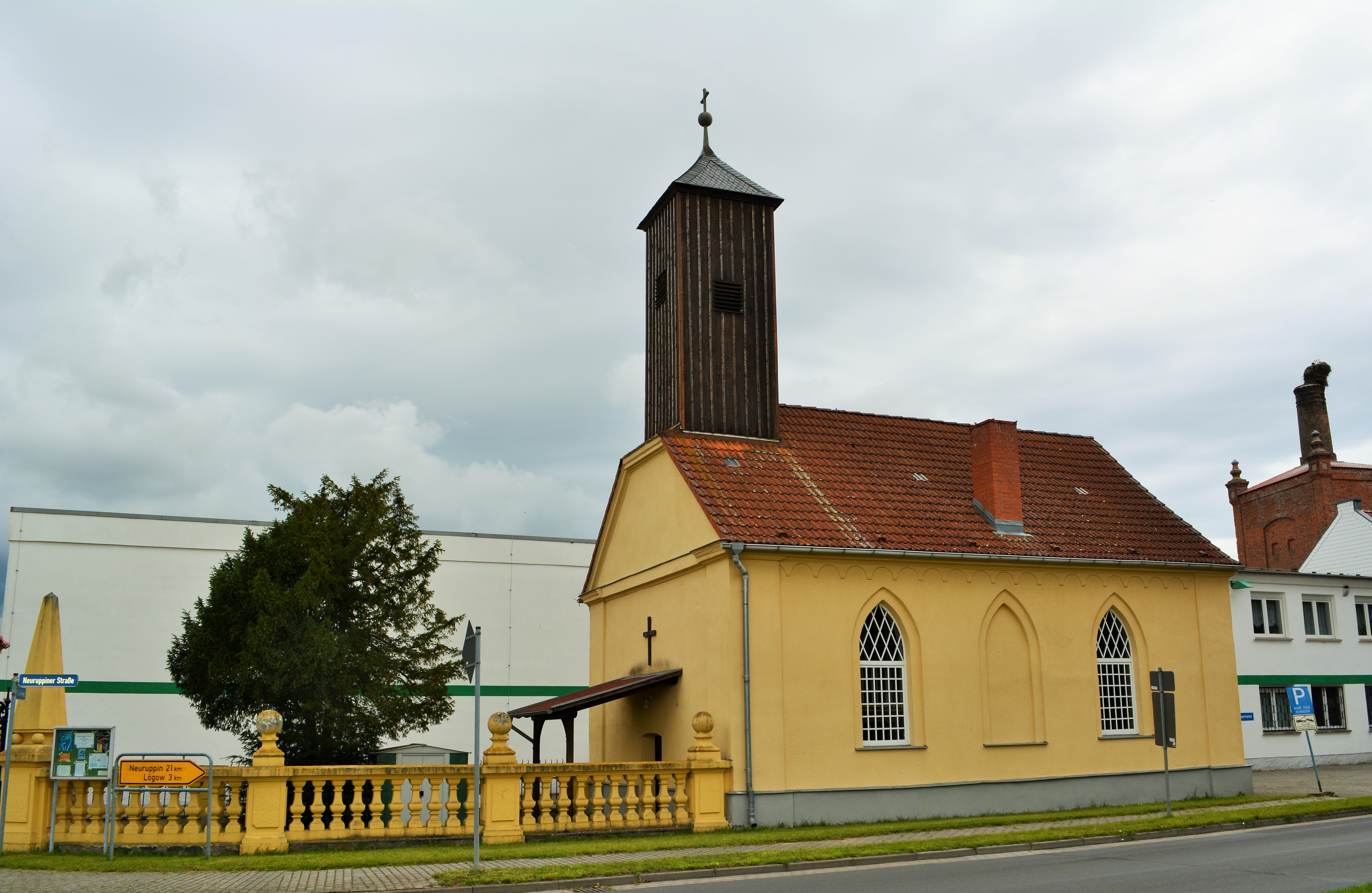 Church in Dessow, Wusterhausen municipality, Ostprignitz-Ruppin district, Brandenburg state, Germany